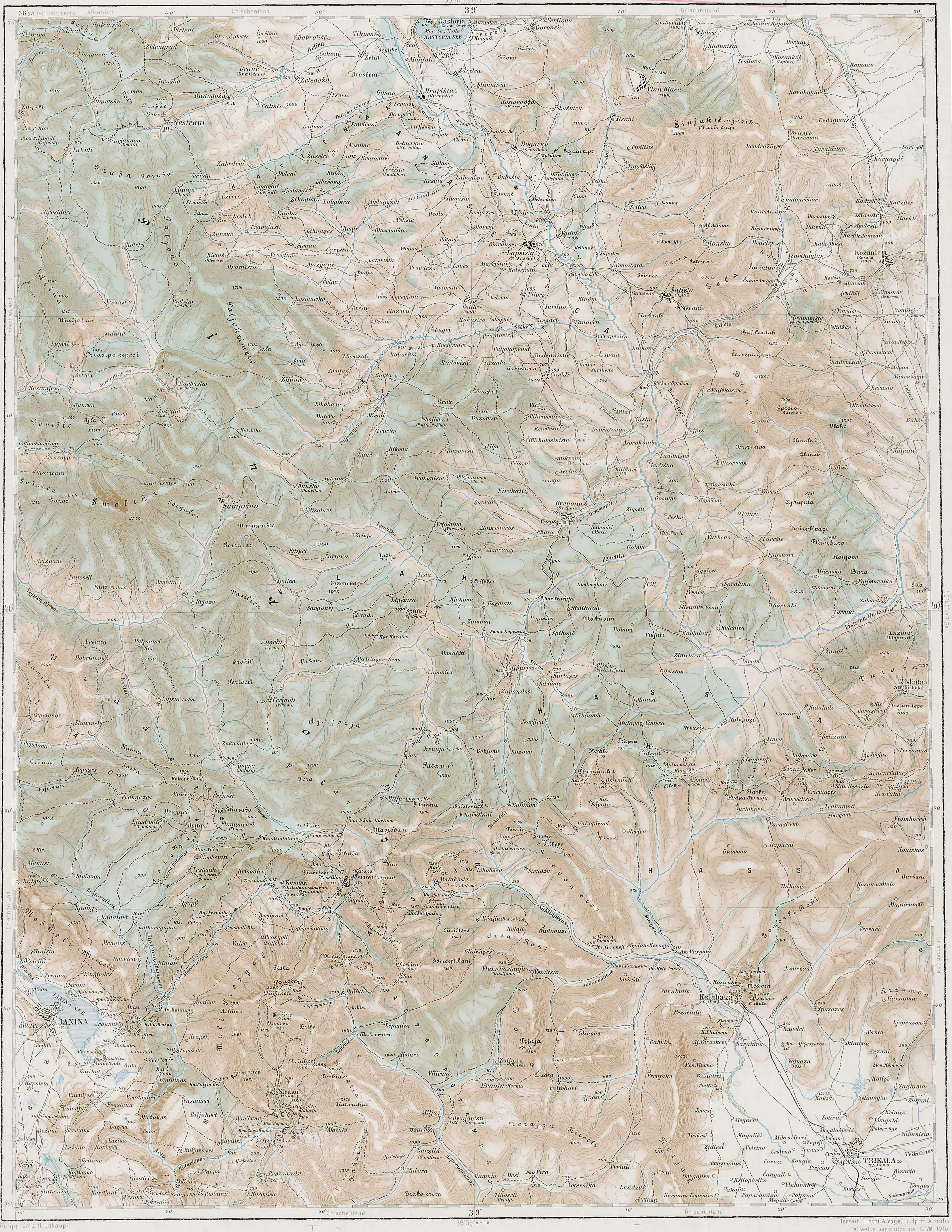 3rd Military Mapping Survey of Austria-Hungary - Janina